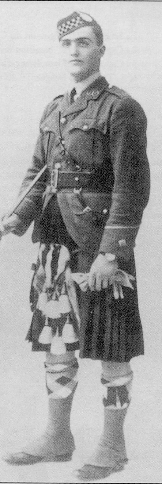 2/Lt Eric Fernandez Yarrow, in the uniform of the Argyll & Sutherland Highlanders